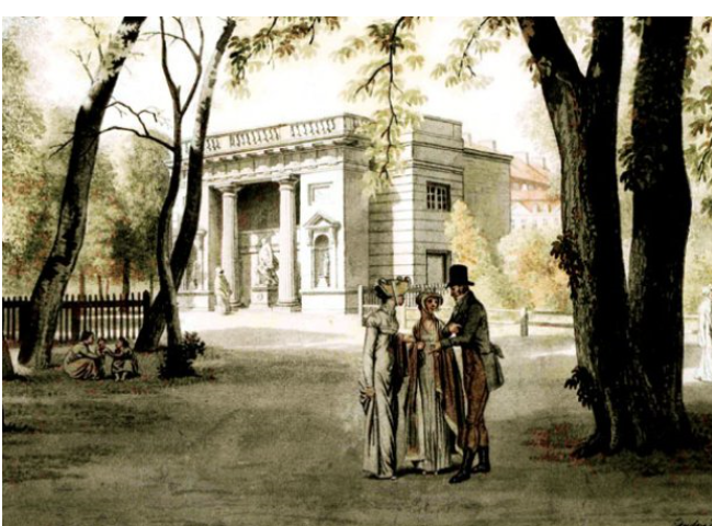 The Hercules Pavilion in Kongens Have in Copenhagen, Denmark